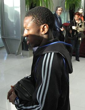 English football (soccer) player Shaun Wright-Phillips